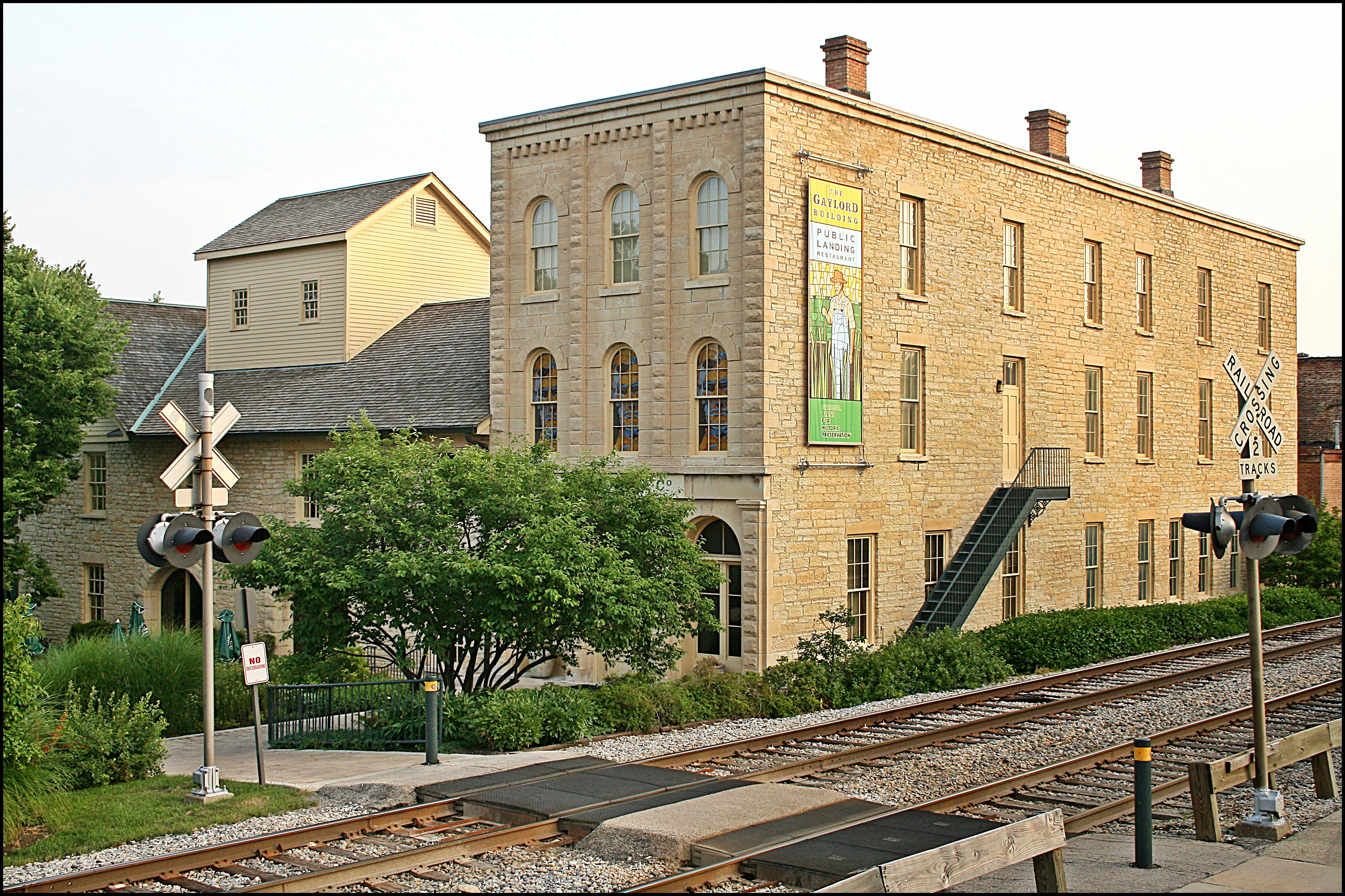 The Gaylord building stands alongside the Illinois and Michigan Canal in Lockport,IL